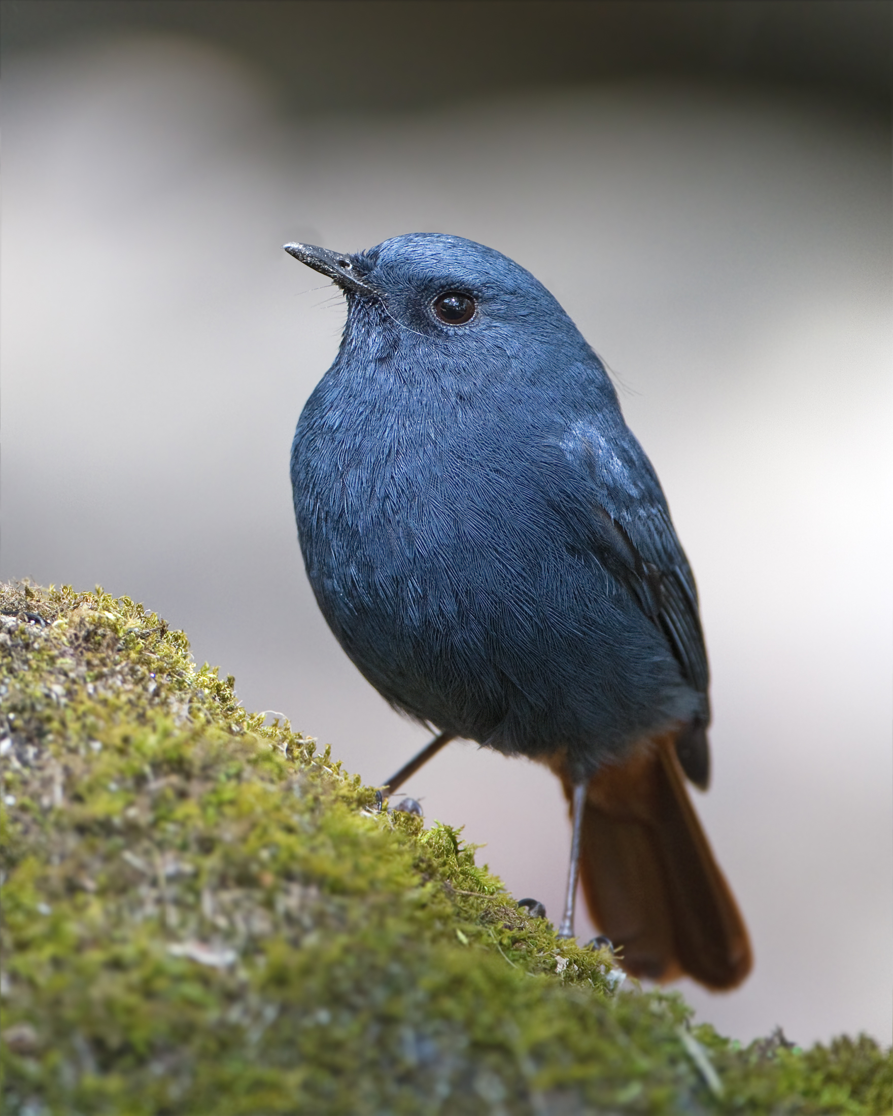 Plumbeous Water Redstart (Rhyacornis fuliginosus) male, Doi Inthanon National Park, Ban Luang, Chiang Mai, Thailand